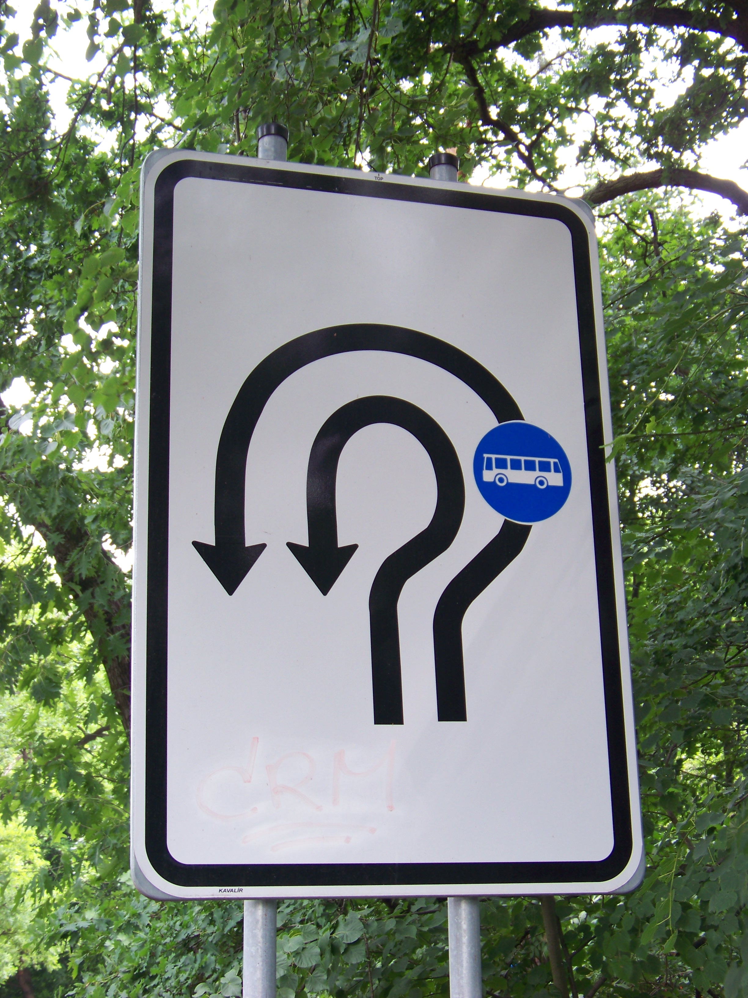 Prague-Újezd nad Lesy, the Czech Republic. Staroklánovická street, bus loop Nádraží Klánovice, a bus lane sign.